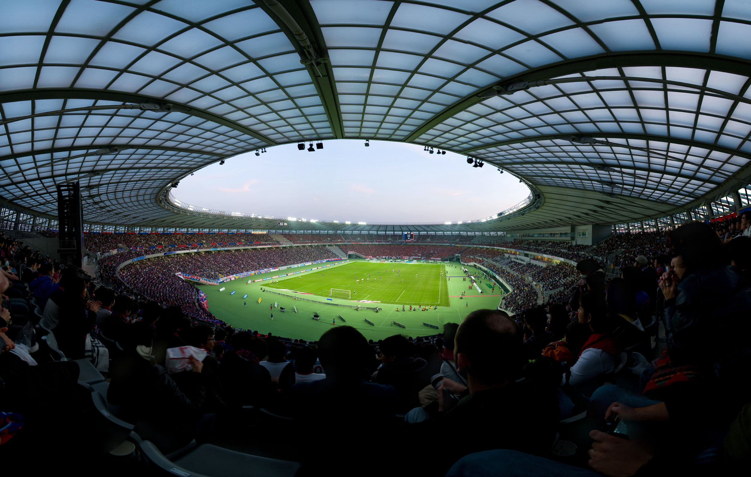 A near-full Ajinomoto stadium - FC Tokyo vs Urawa Red Diamonds